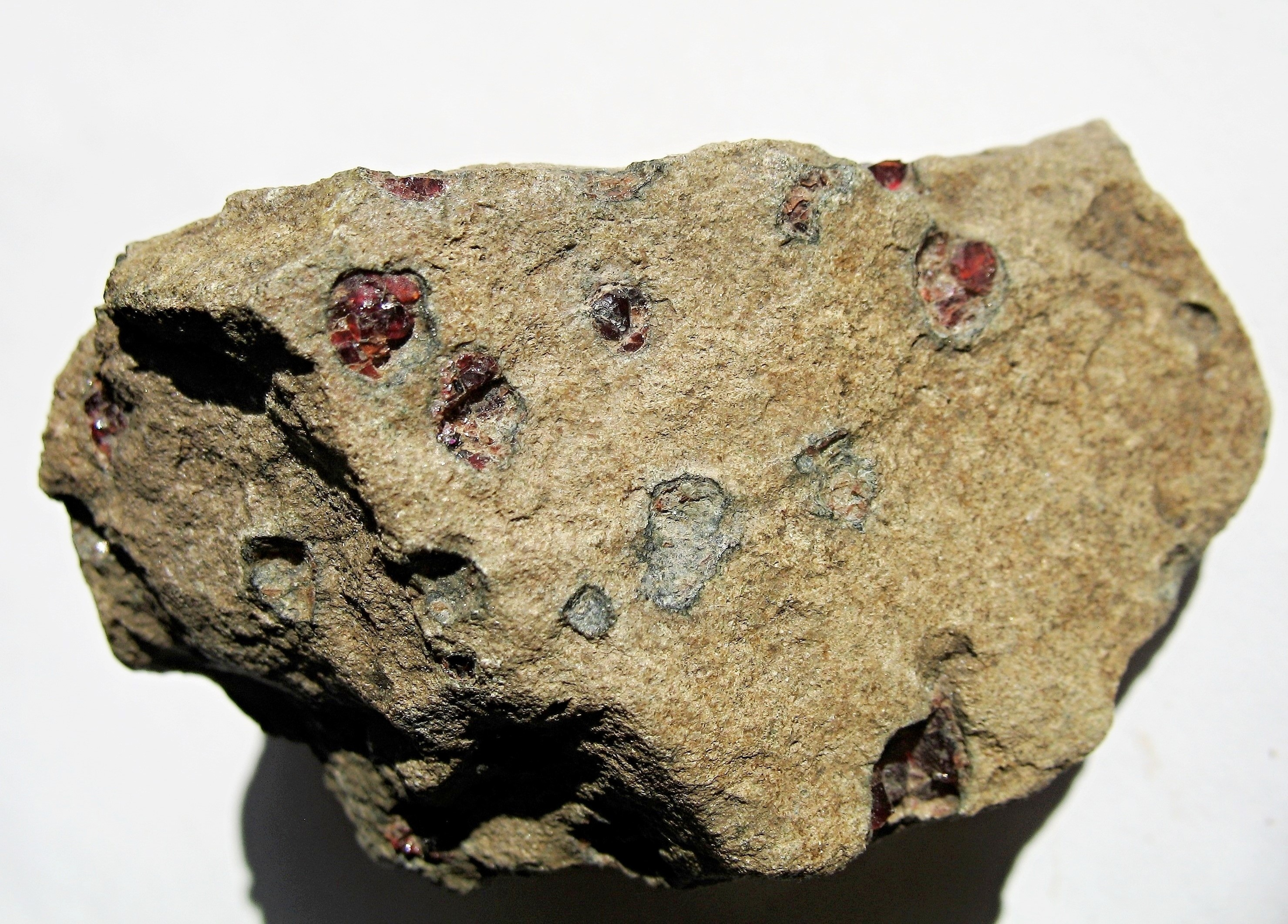 Pyrope from Linhorka Hill, Litoměřice District, Czech Republic